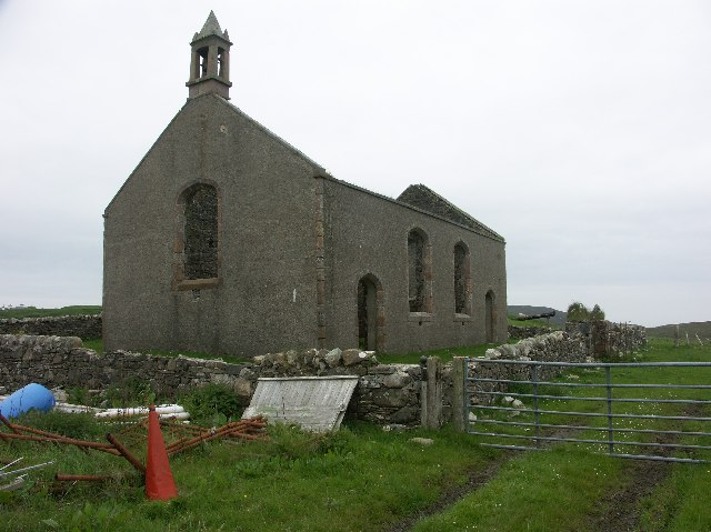 Risabus Church, Oa, Islay.